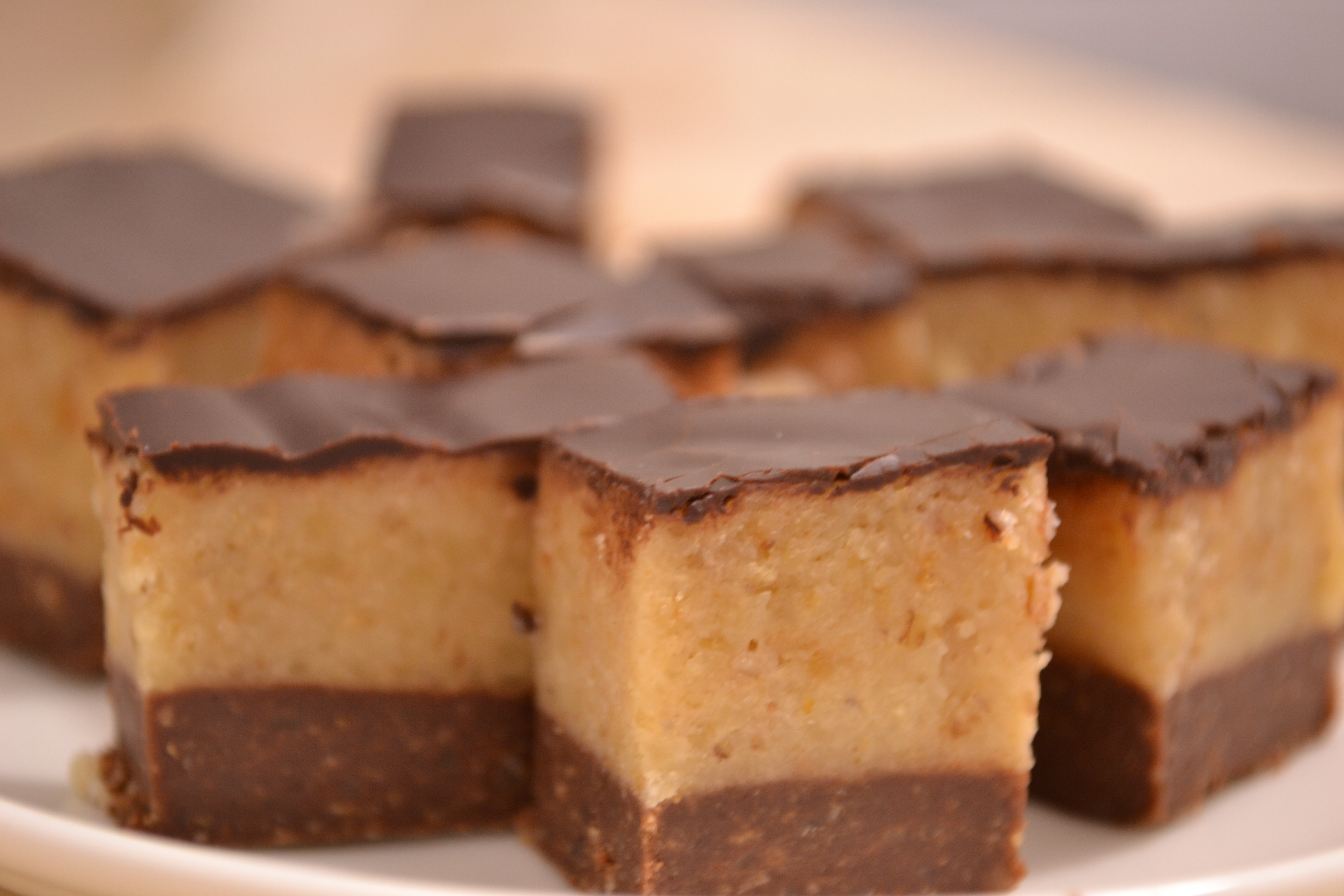 Bajadera, serbian cake